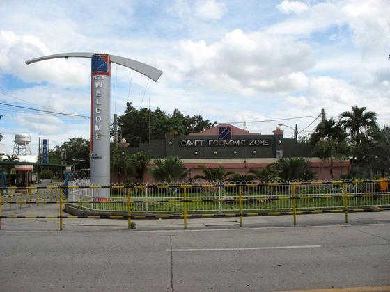 Cavite Export Processing Zone